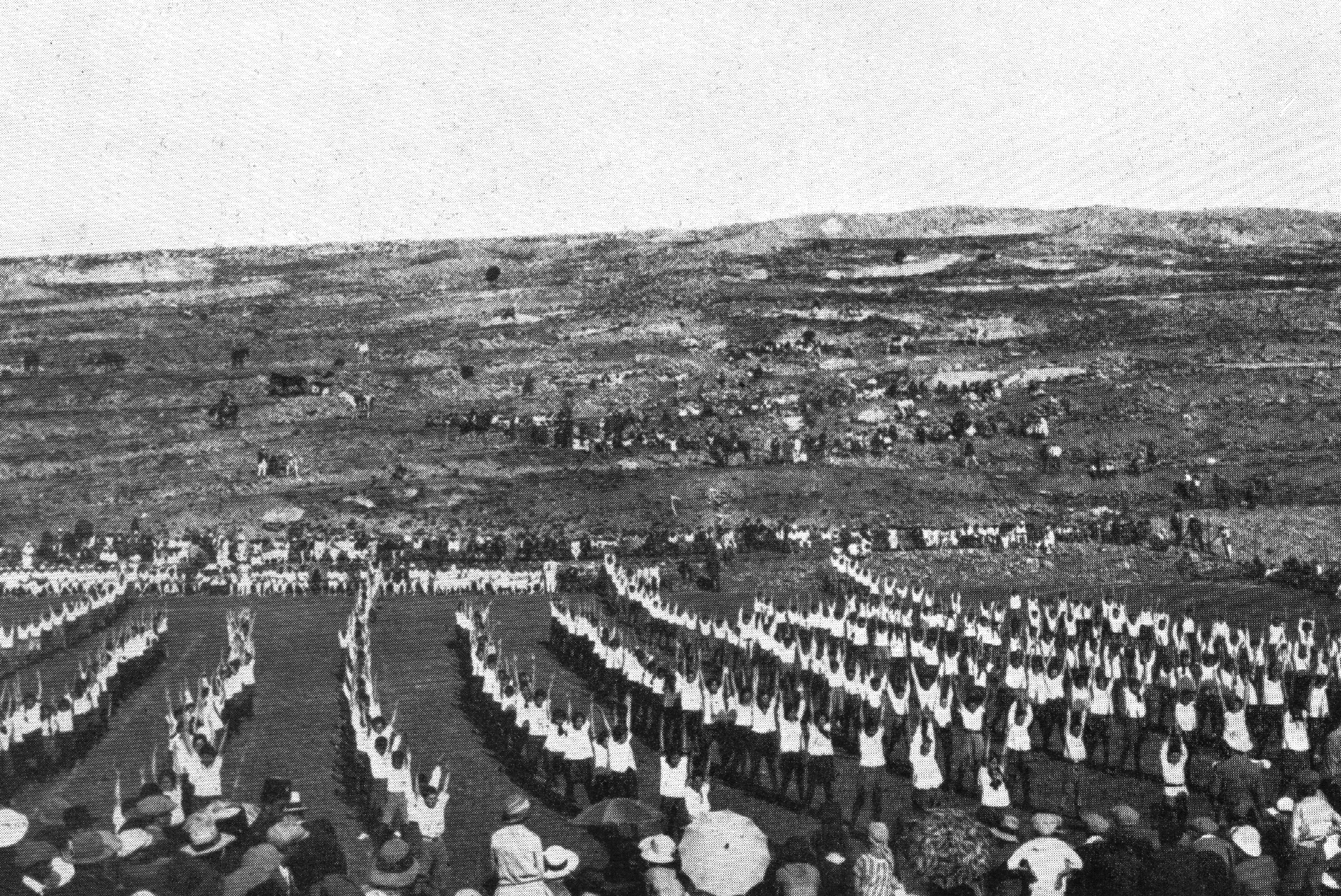 Sports near Beit HaKerem, c. 1925